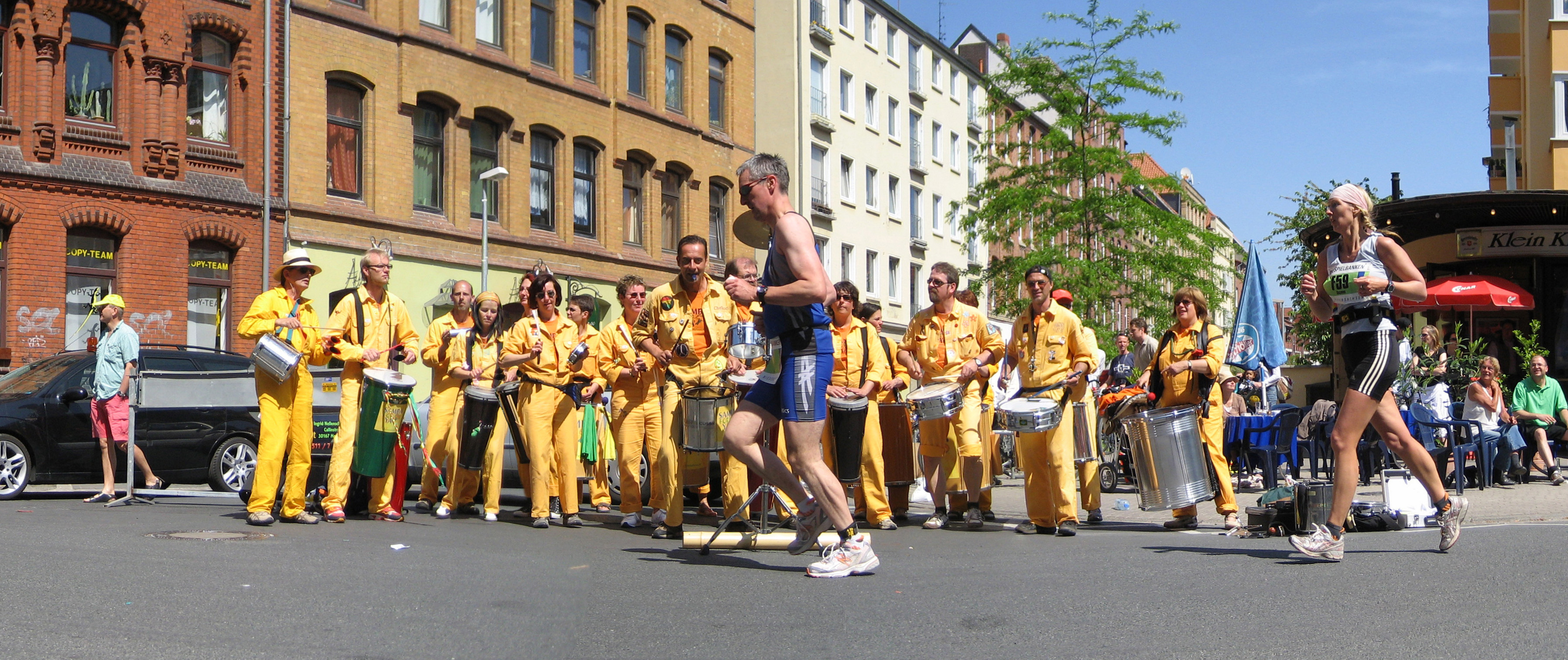 Marathon Race in Hannover